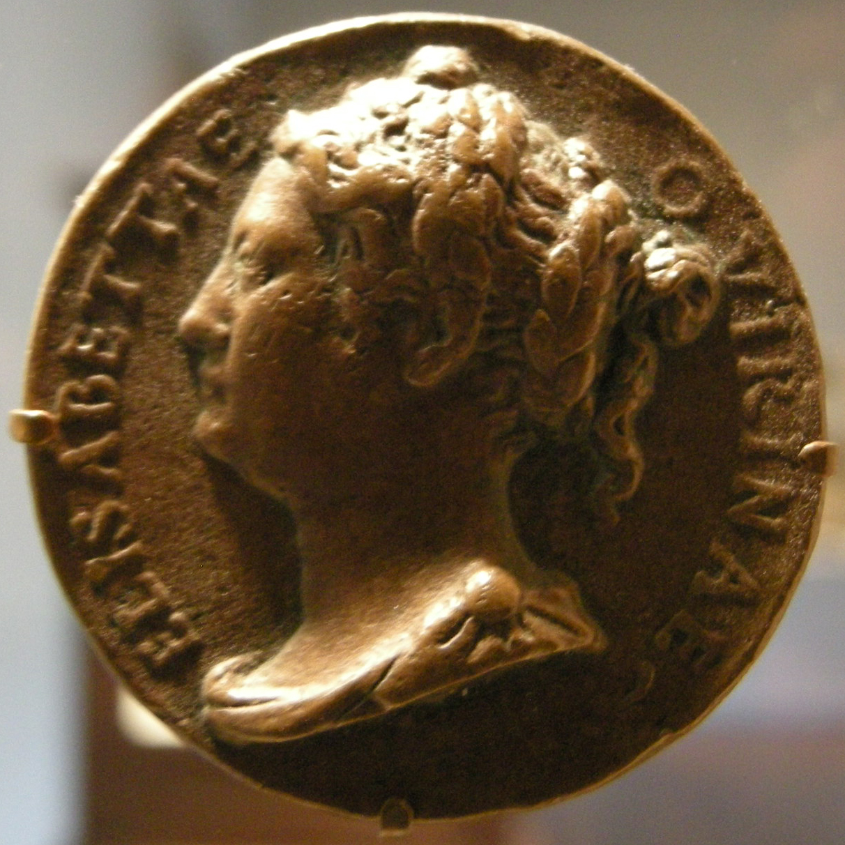 Osella designed by Danese Cattaneo (Colonnata, 1512 – Padova, 1572), depicting Elisabetta Querini, died 1559, Daughter of Francesco Querini of Venice, Wife of Lorenzo Masolo, Widowed 1556